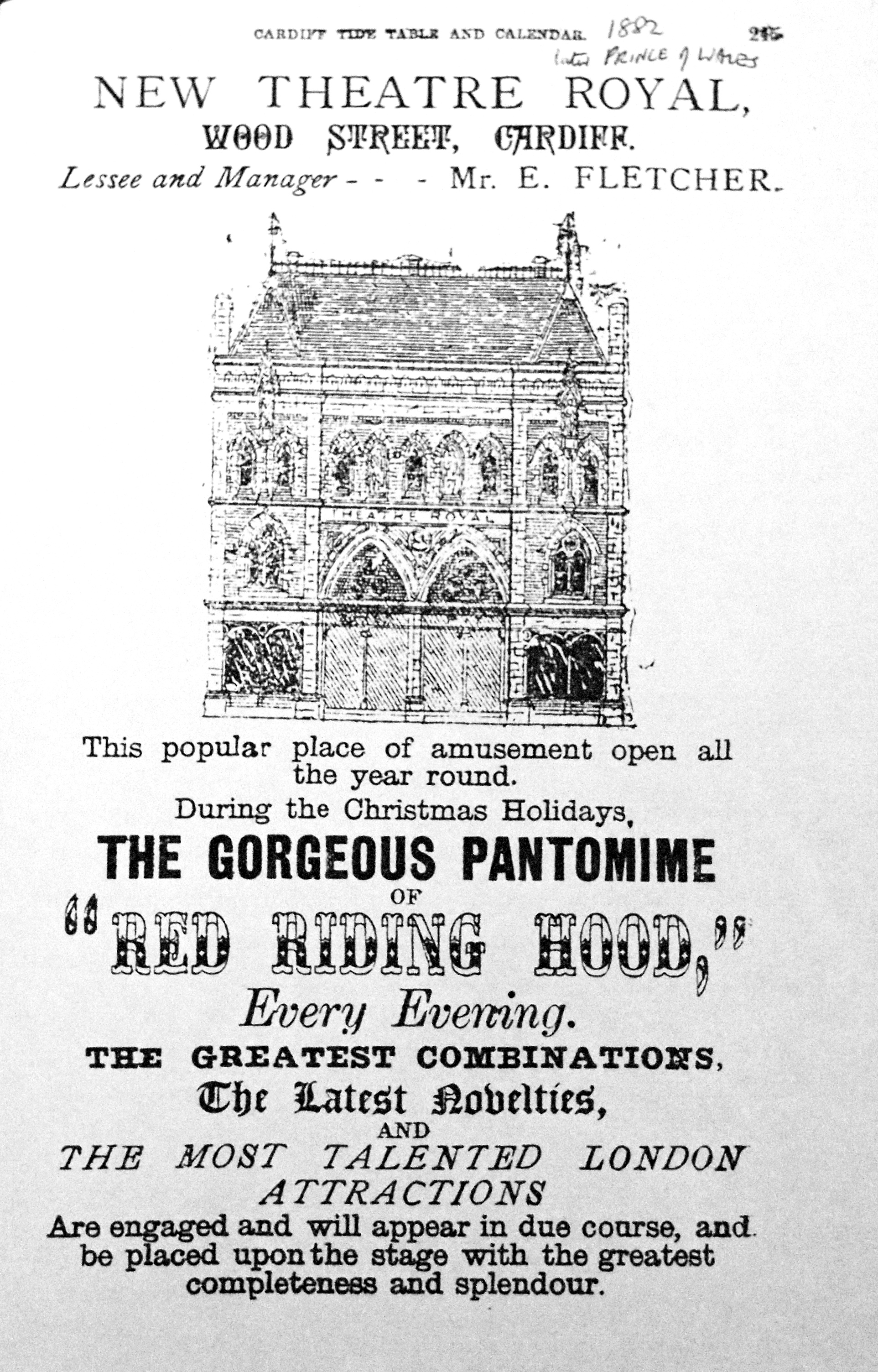 Advertisement for a pantomime performance at the New Theatre Royal (later the Prince of Wales Theatre), Cardiff. From Cardiff Tide Table and Calendar 1882